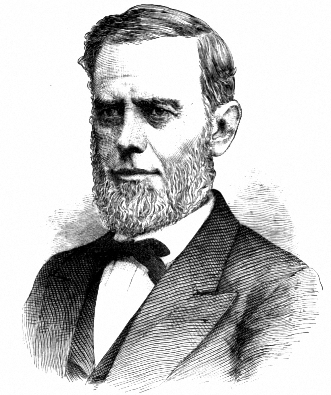 Edwin Maxwell (July 16, 1825 – February 5, 1903) was an American lawyer, judge, and politician in the U.S. state of West Virginia. Maxwell served as Attorney General of West Virginia in 1866 and was an Associate Justice of the Supreme Court of Appeals of West Virginia from 1867 until 1872. He was elected to the West Virginia Senate (1863–1866; 1886–1893) and the West Virginia House of Delegates (1893–1903).